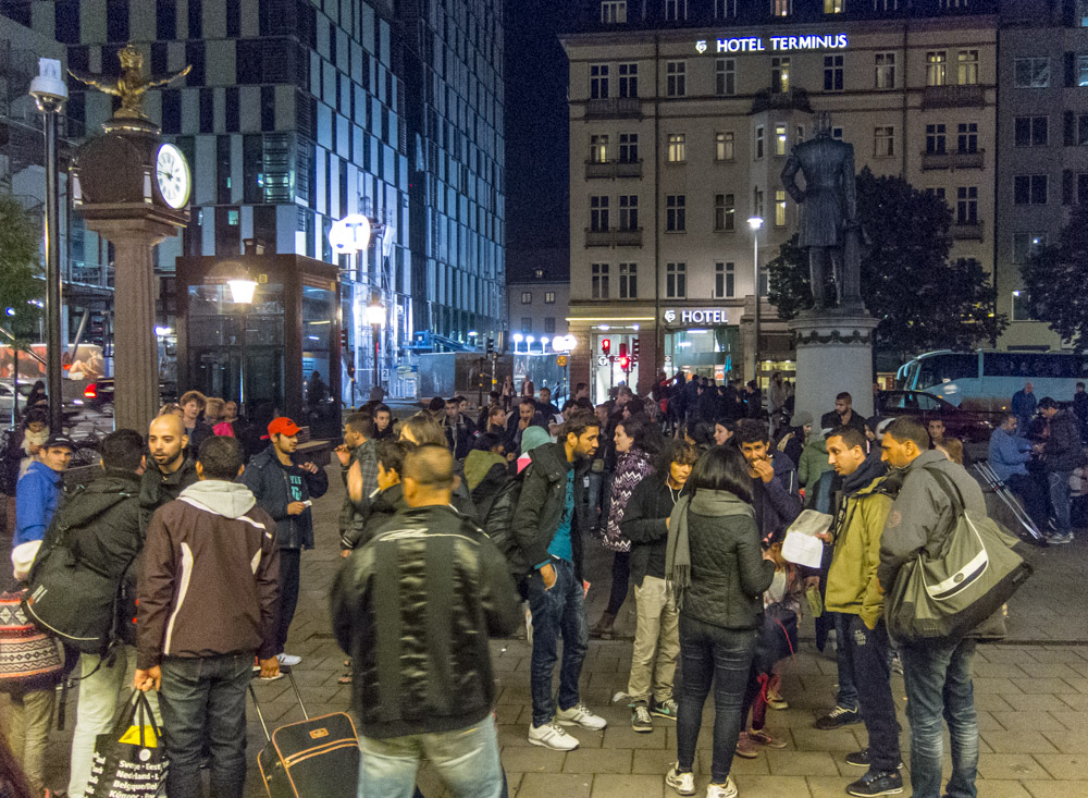 Refugees from Syria arrive at Stockholm Central Station by train through Denmark and Malmo in September 2015.